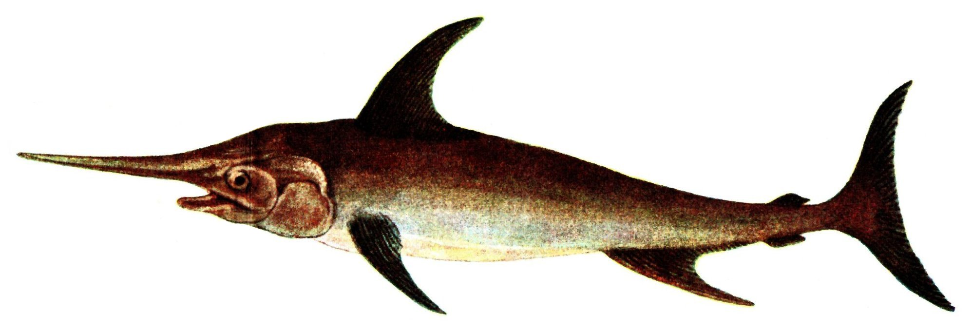 Xiphias gladius